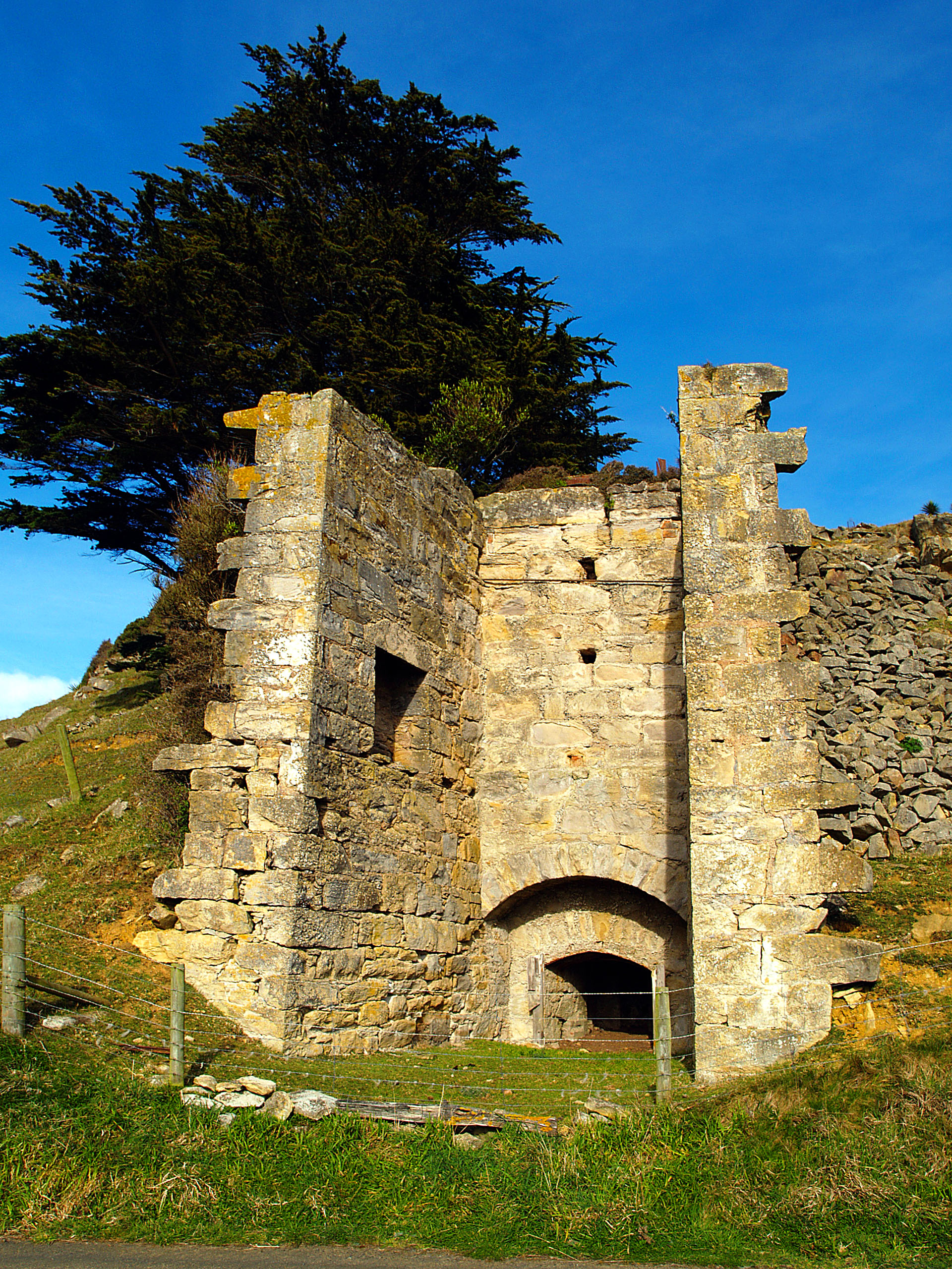 Lime Kiln, Otago Peninsula, Dunedin, New Zealand